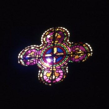 Stained glass window in St. Margaret's Church